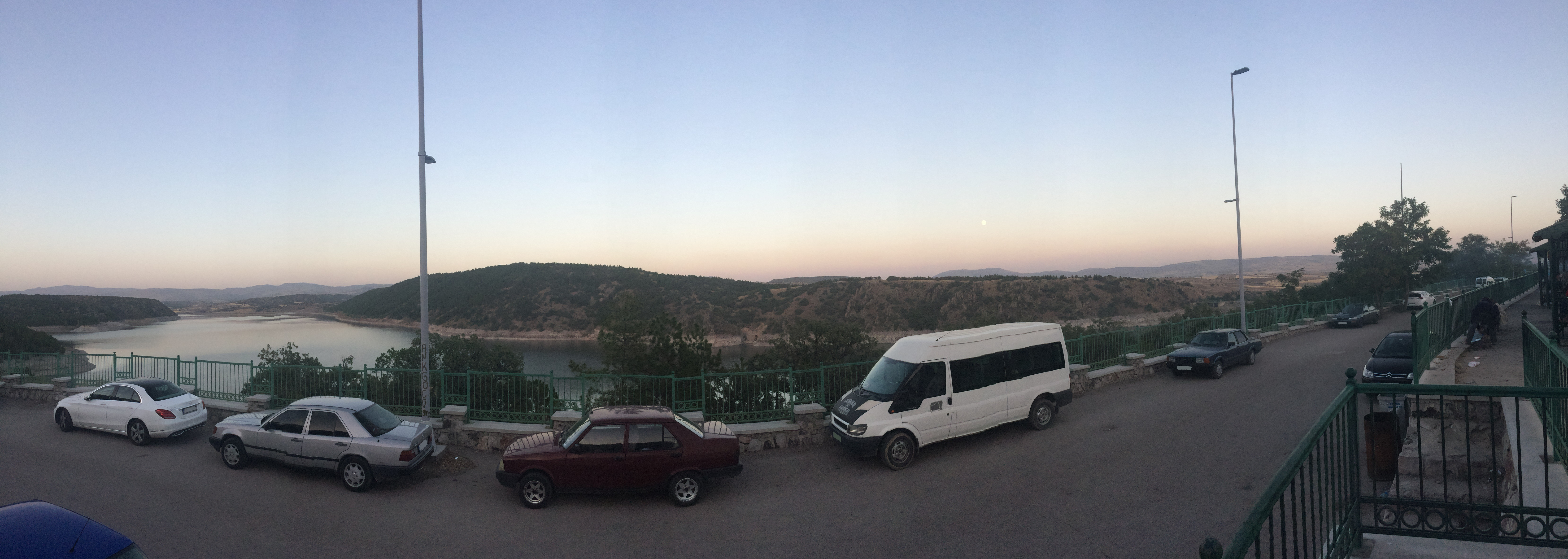 Panoramic view of the Kurtboğazı dam. There may be breaks in the image.